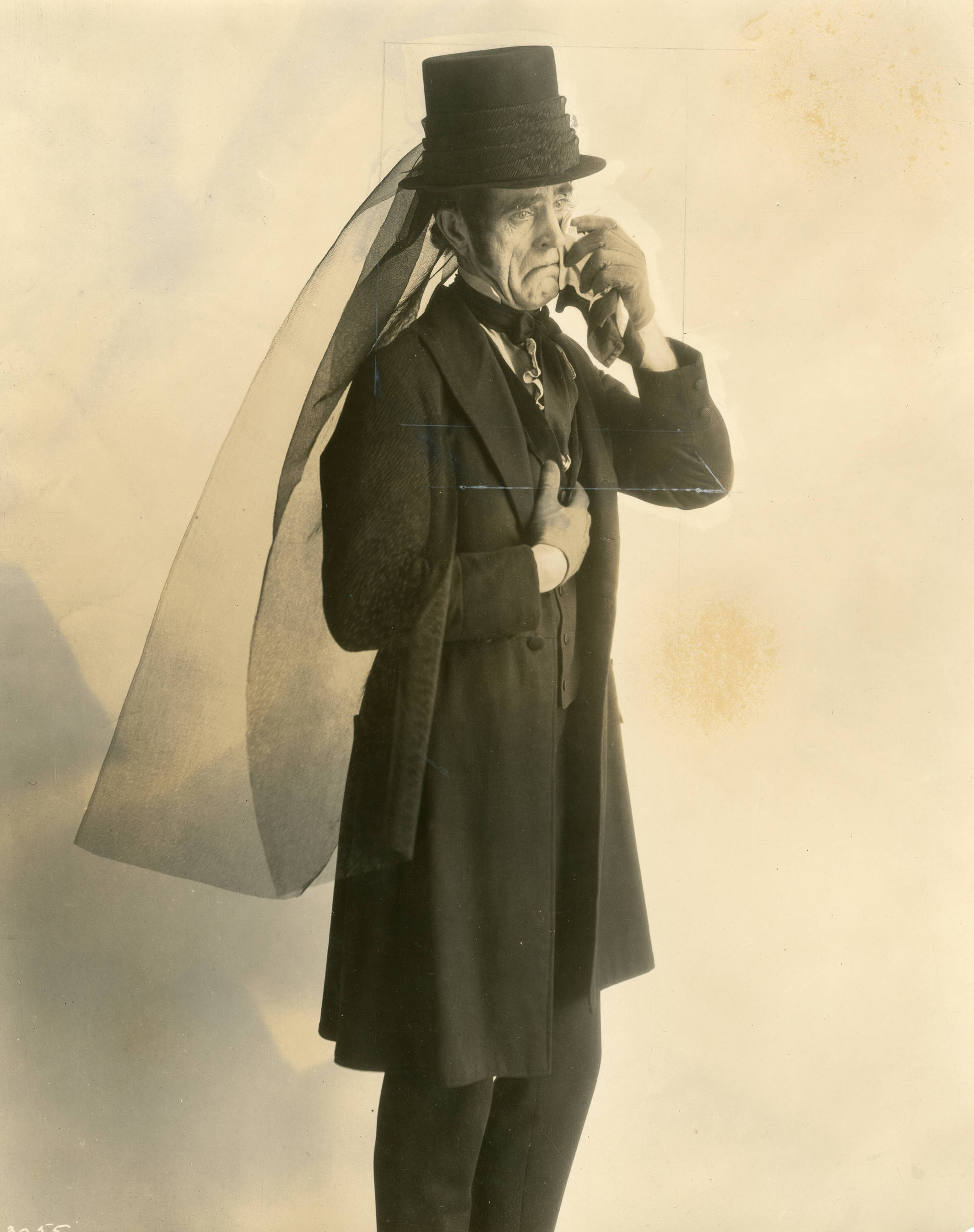 Nelson McDowell, film actor Subjects: actors